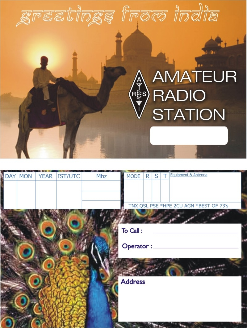 Generic Amateur Radio QSL Card for Indian amateur radio operators in India, created by the Amateur Radio Society of India.